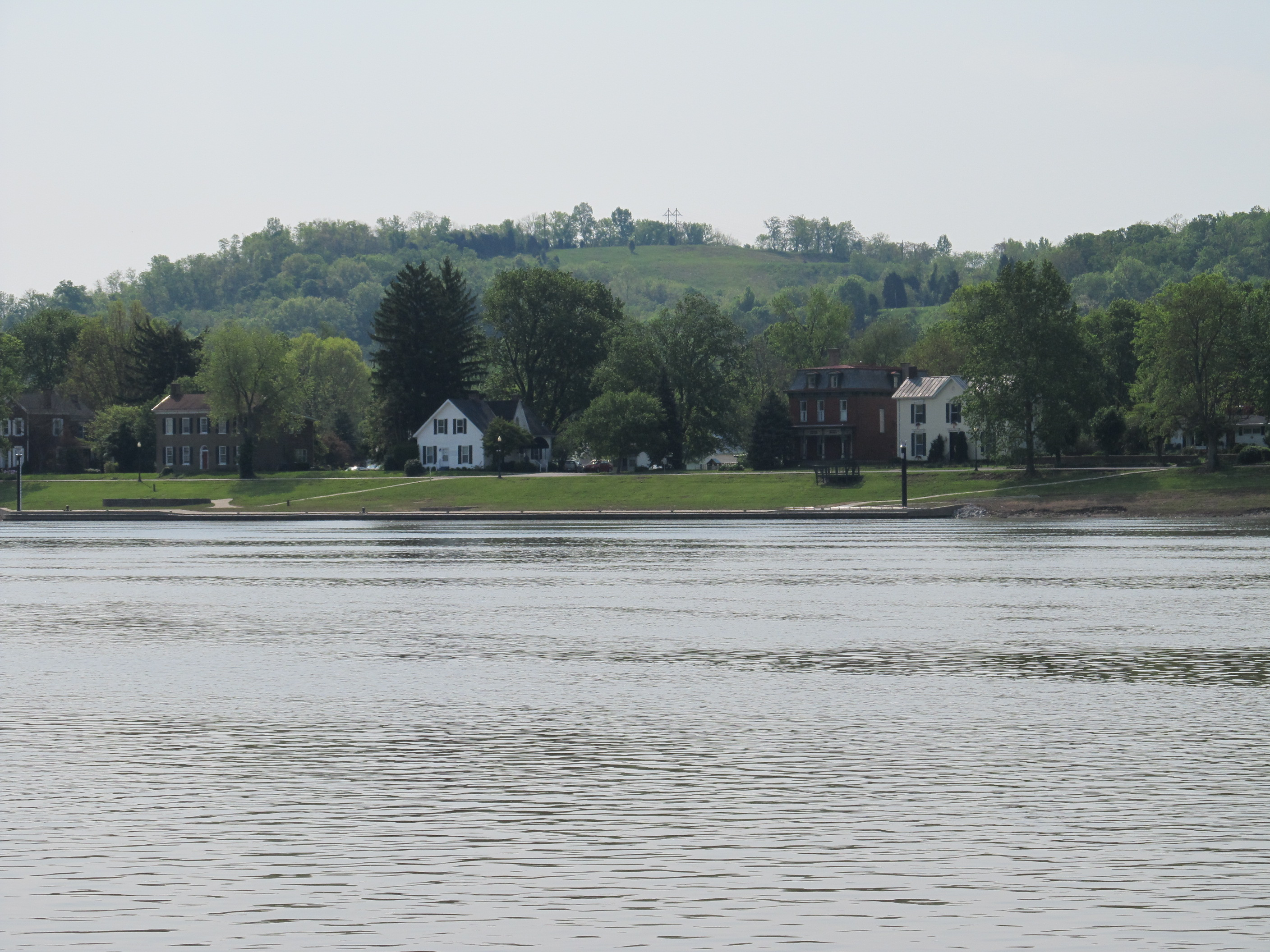 View of Augusta, Kentucky from the Ohio River